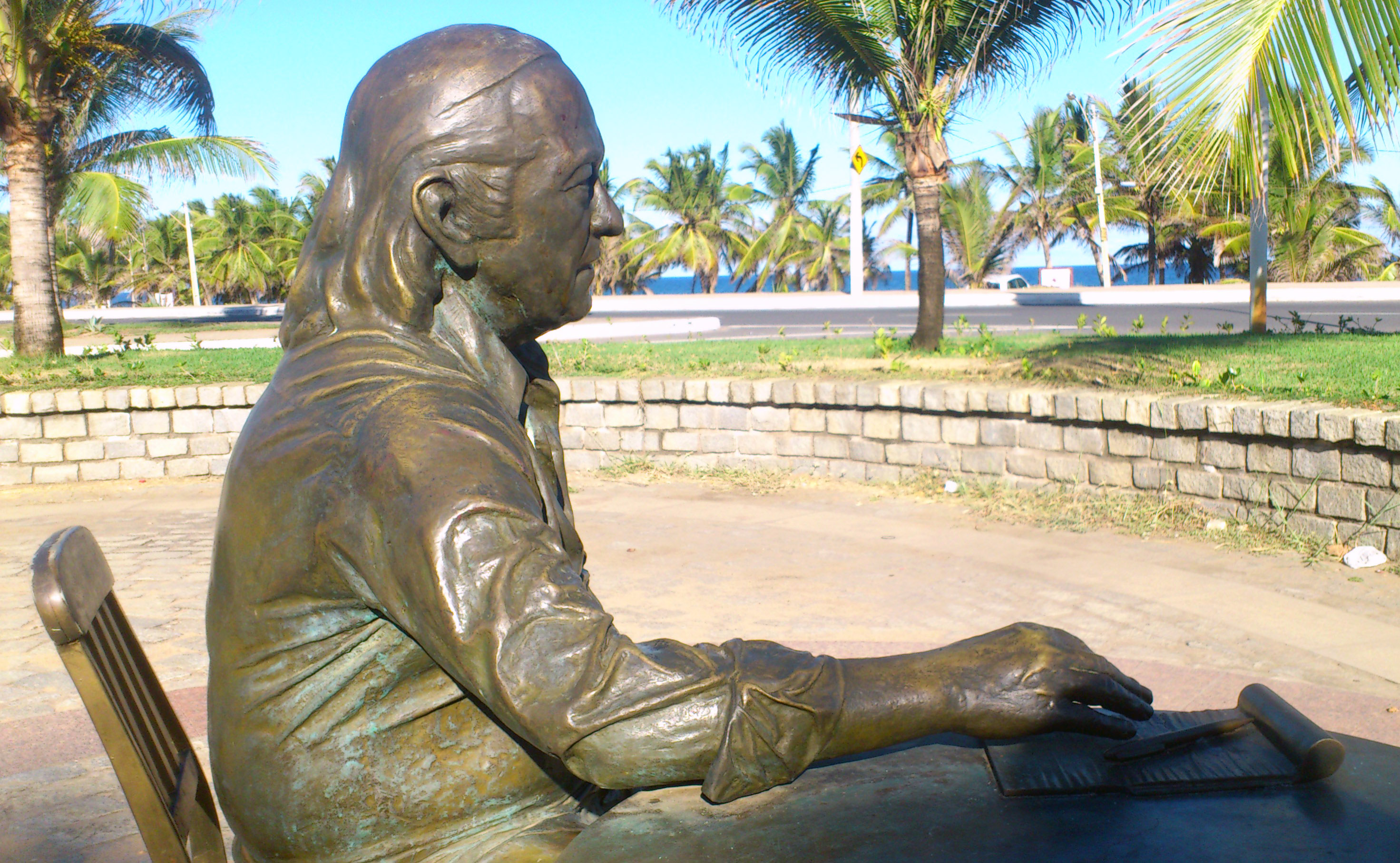 Sculpture of Vinicius in Itapoan